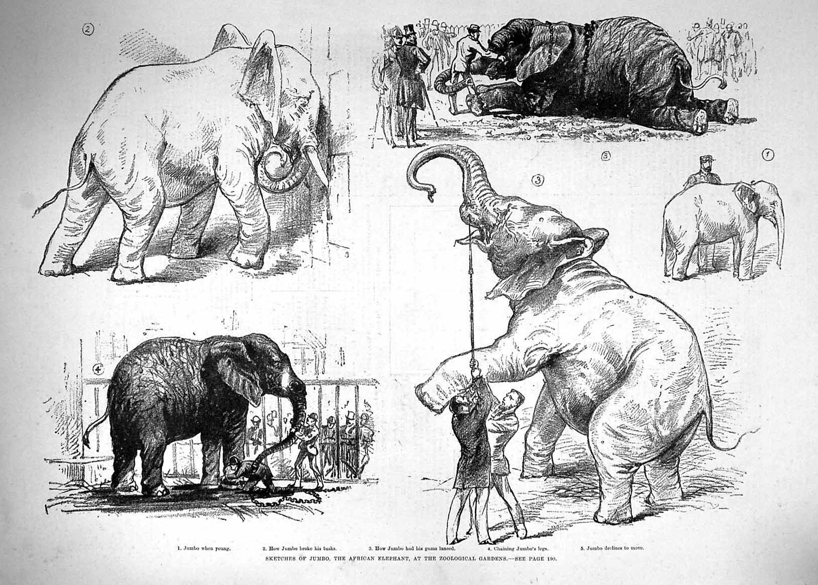 Sketches from Jumbo's life (Illustrated London News, Feb. 25, 1882)